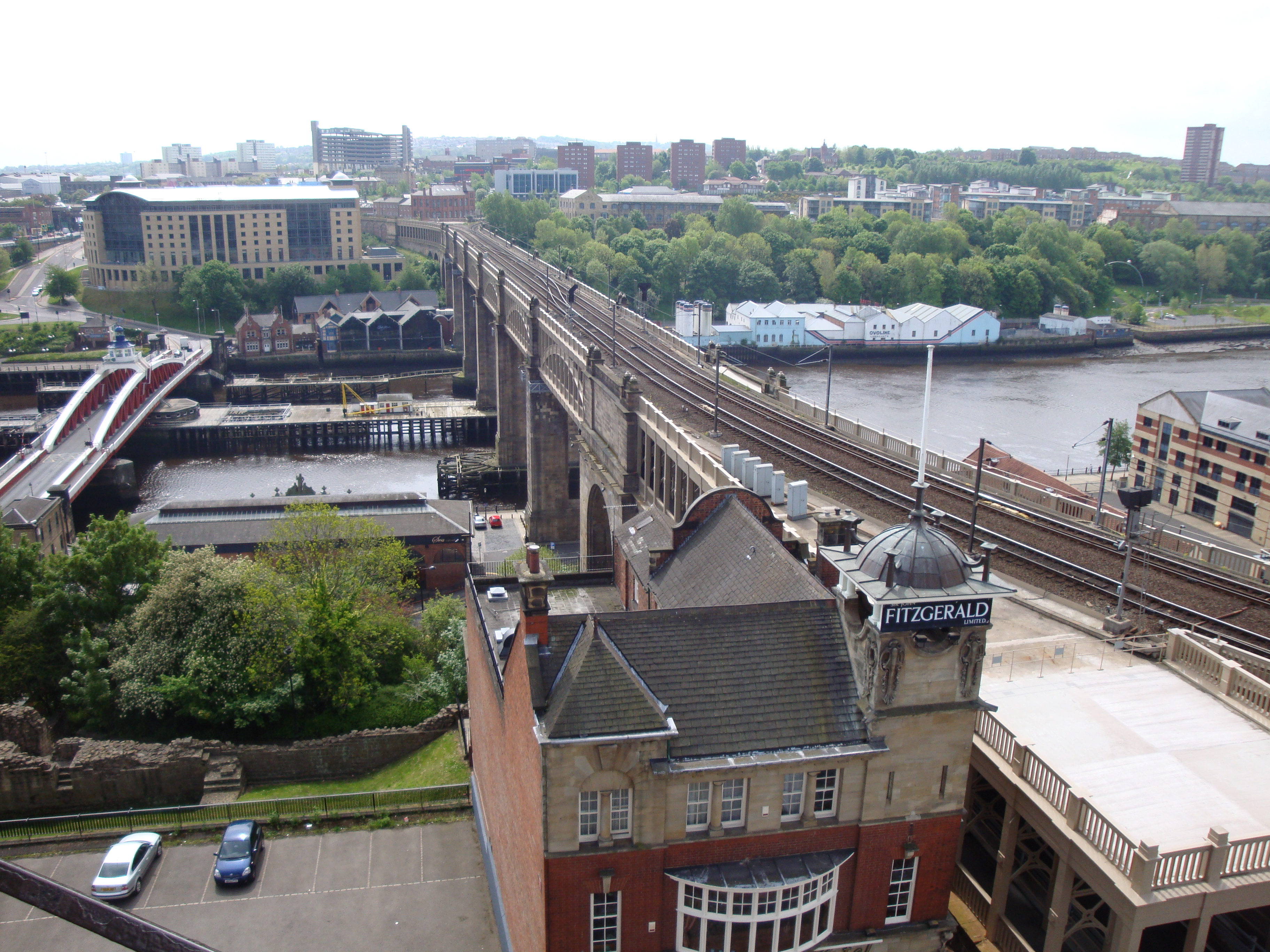 View of The High Level Bridge in Newcastle-upon-Tyne, England taken from the Castle that gave its name to the city. Note the rationalised tracks - down to 2 - and the provision of electrification to permit East Coast Main Line (ECML) electric locomotives to use the bridge. The swing bridge can be seen to the left (downstream).